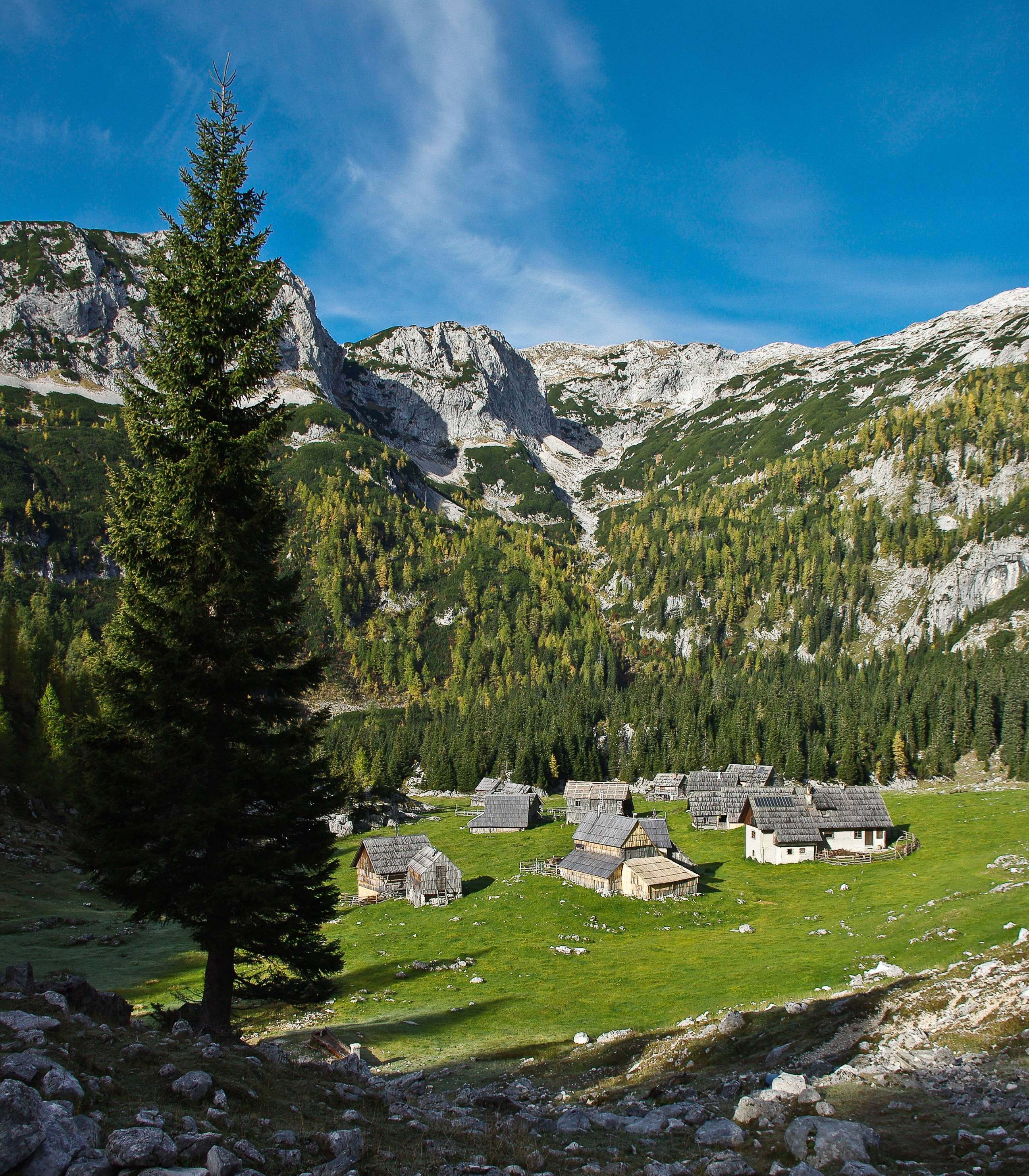 Laz Alm over Bohinj.